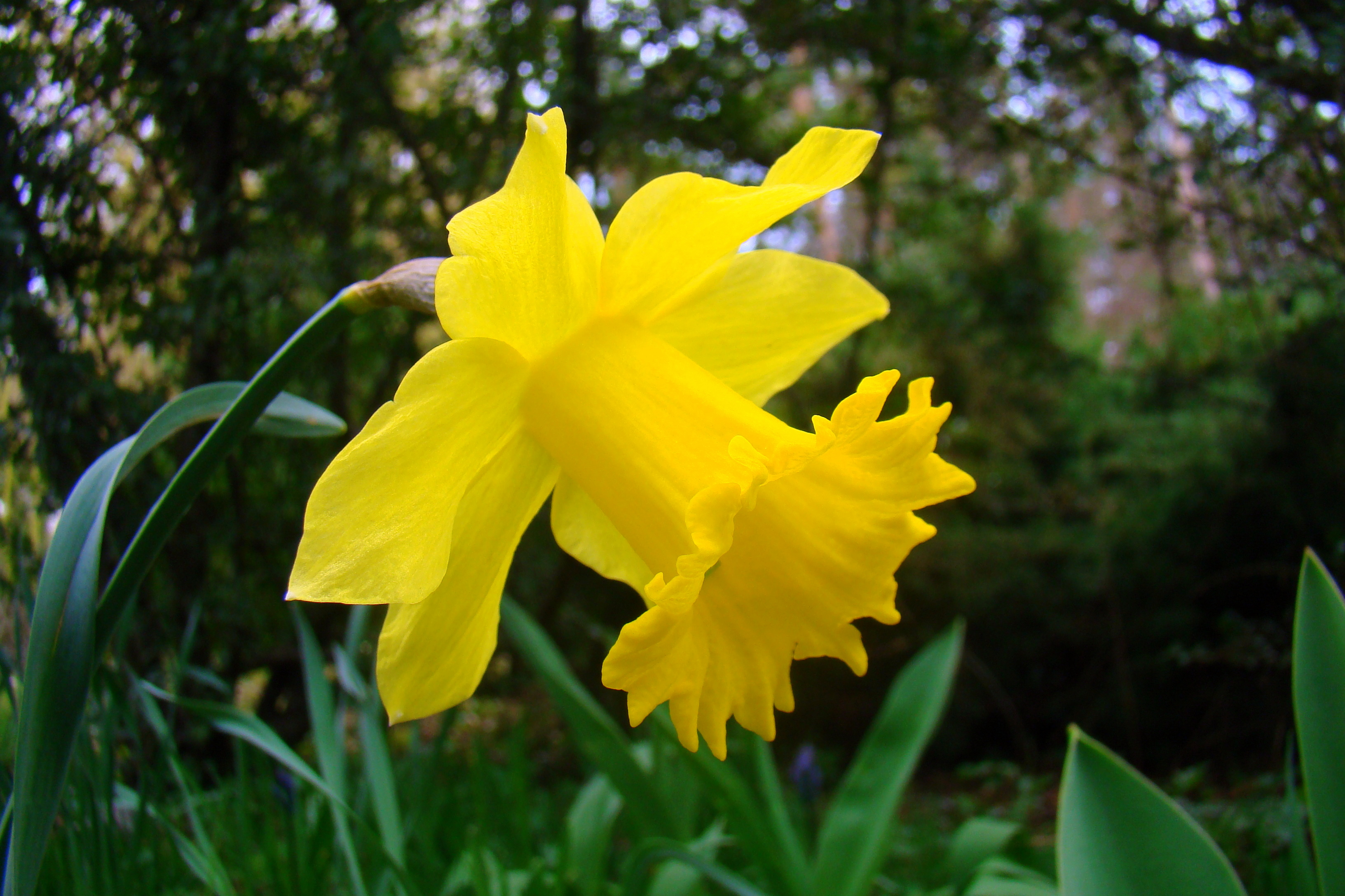 This image shows a Narcissus